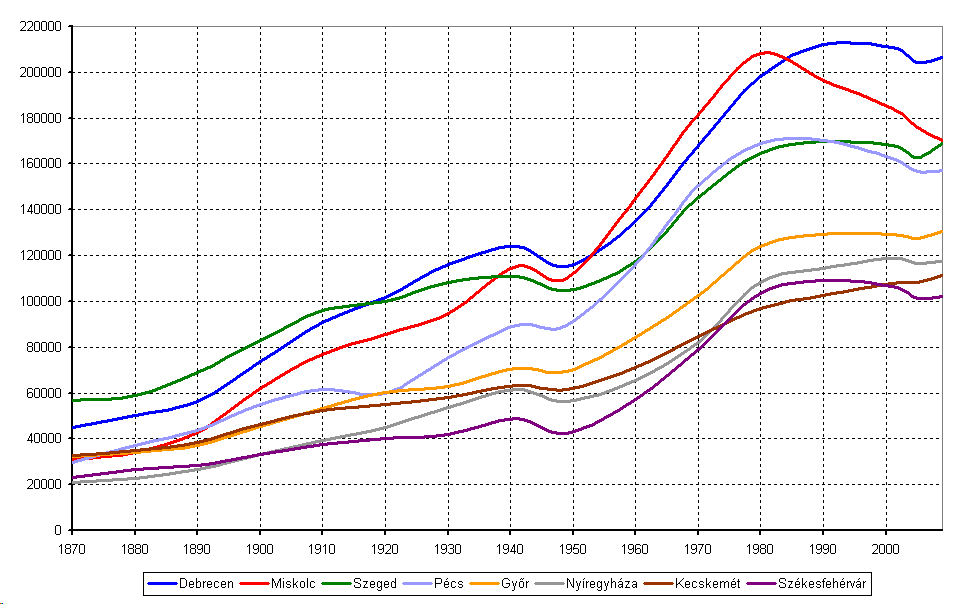 The population of Hungary's biggest cities, excluding Budapest (1870-2009).